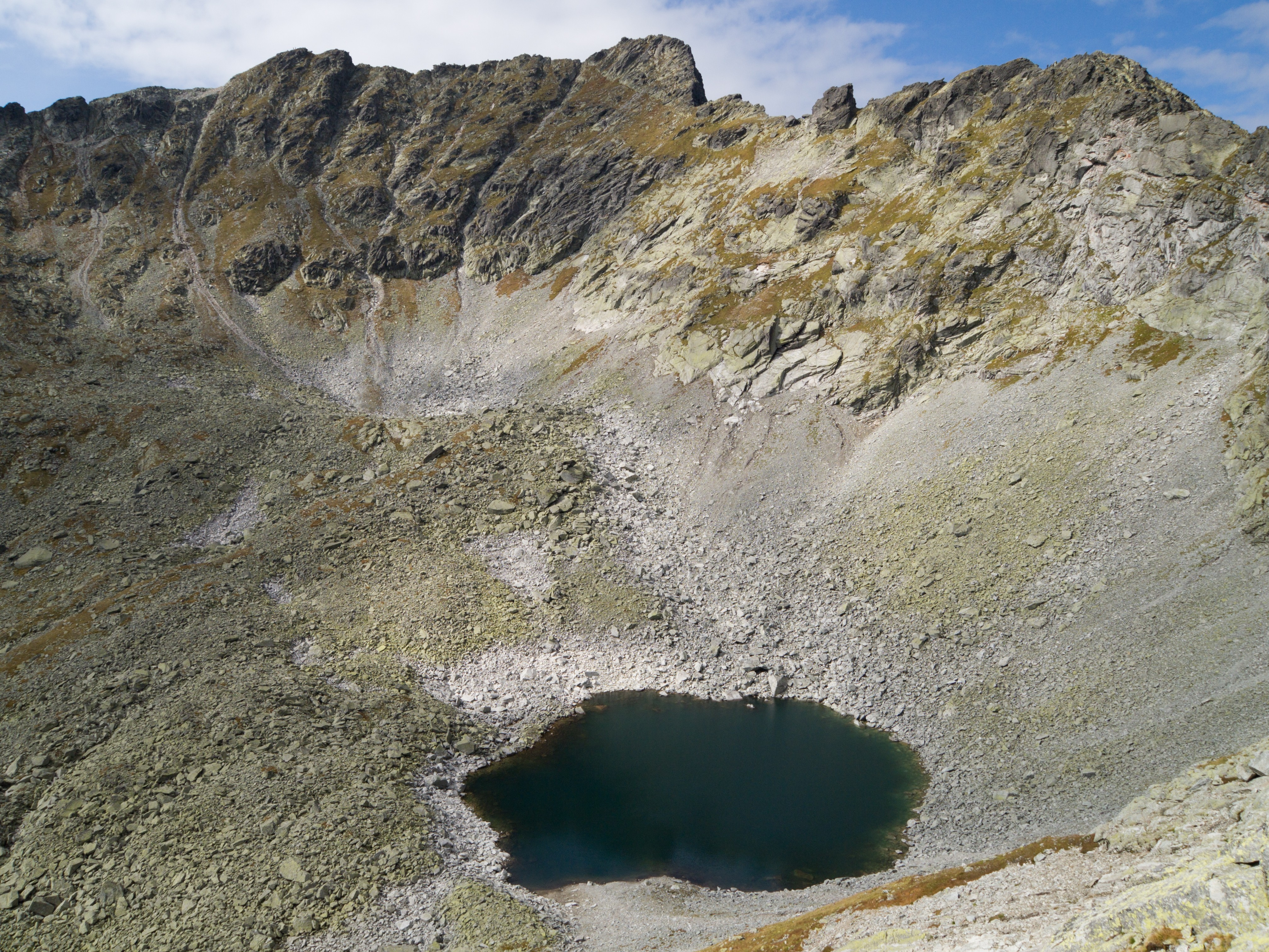 Furkotský štít, Hrubý vrch, Mlynická veža and Veža nad Okrúhlym plesom, at the bottom Okrúhle pleso.